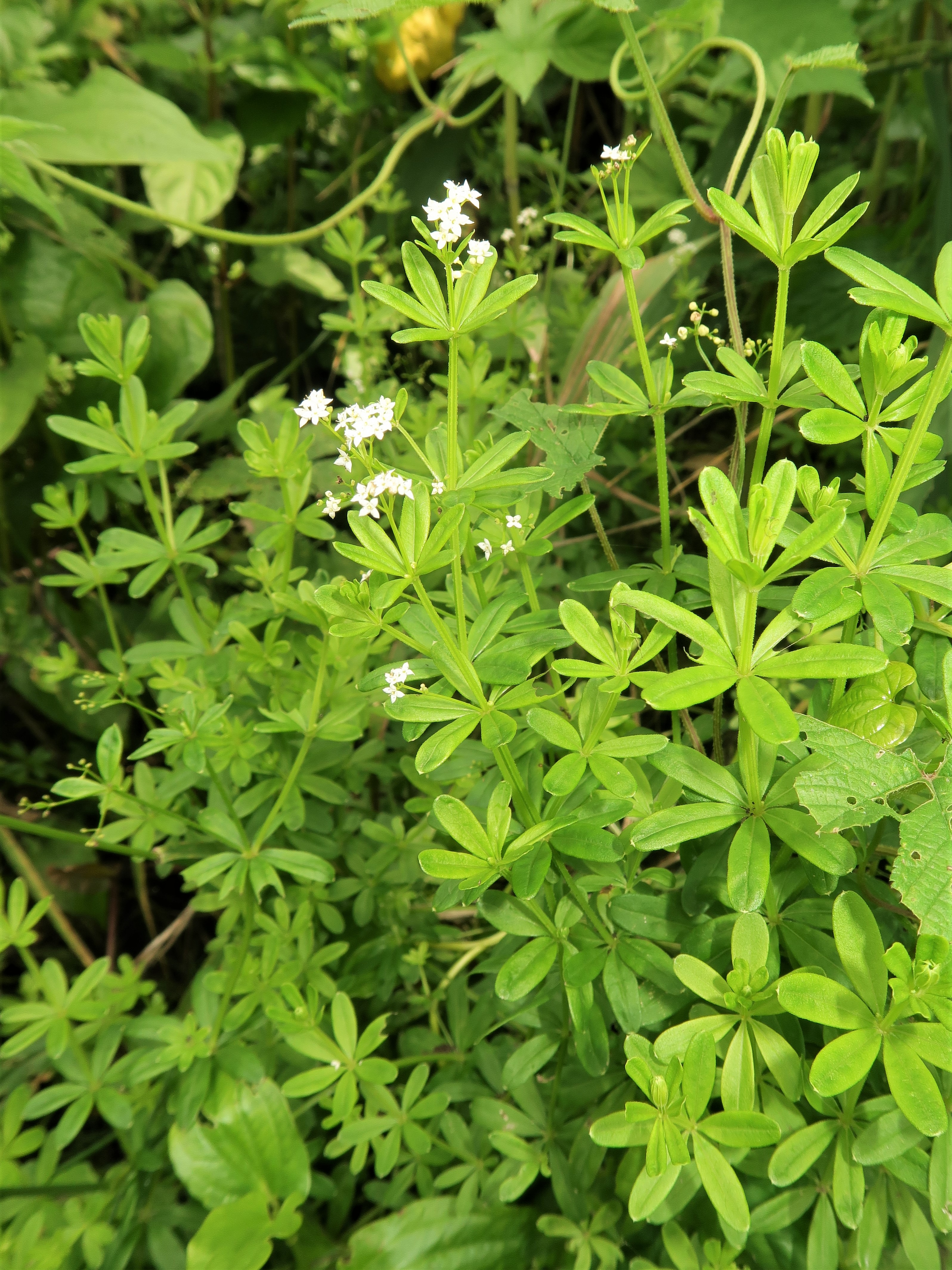 Galium tokyoense , Watarase-yusuichi, Tochigi pref., Japan